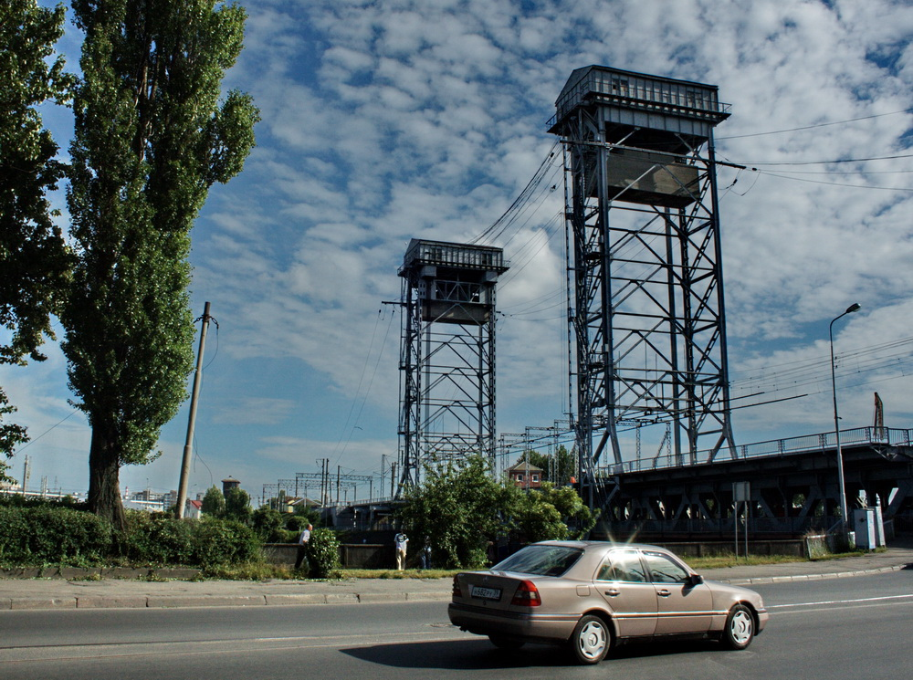 Two-tier bridge